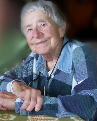 Doris McCarthy, 2006